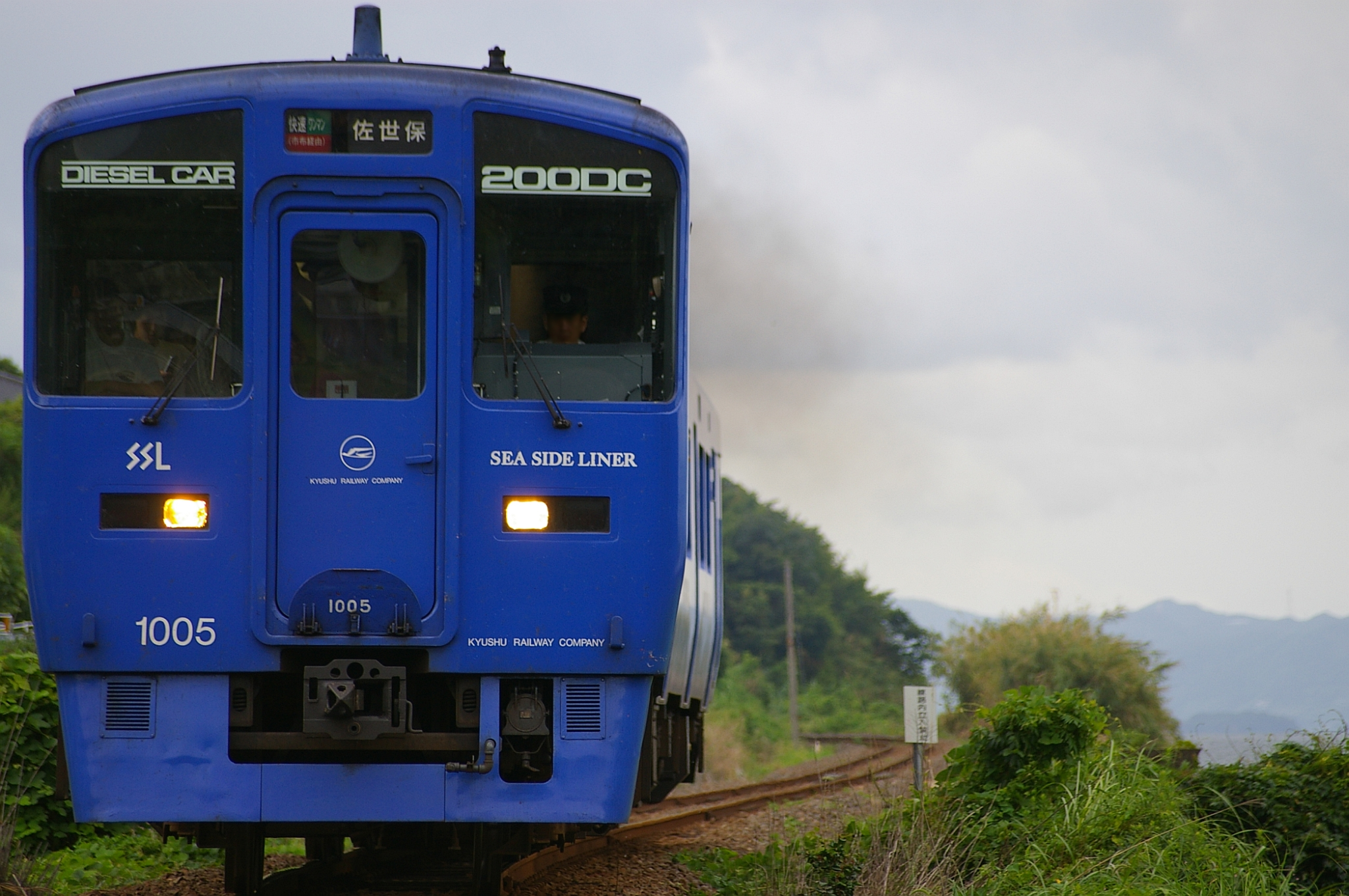 DC200 on Omura Line